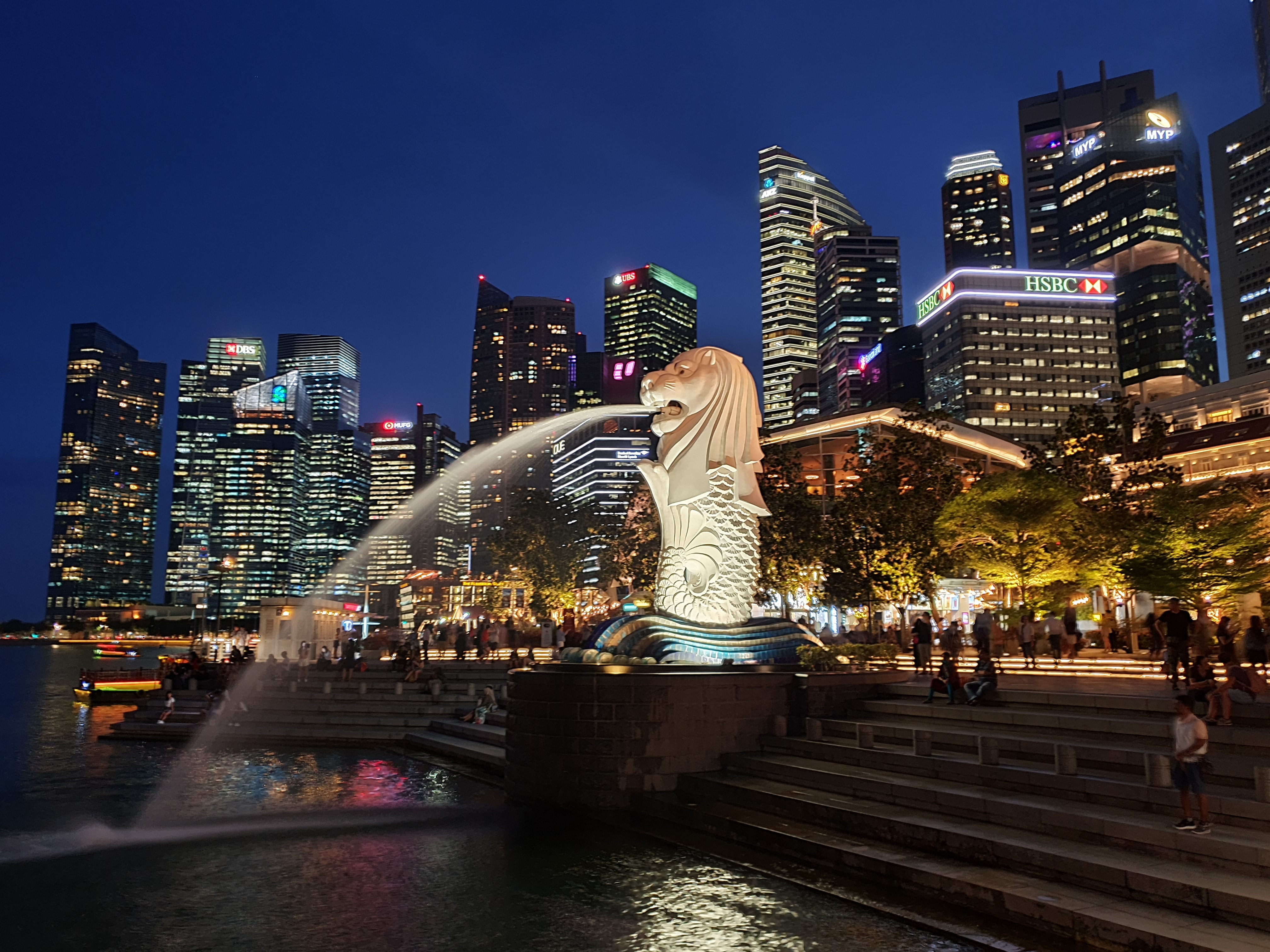 Singapore Skyline with Merlion in the foreground. Picture captured on October 14th 2019.